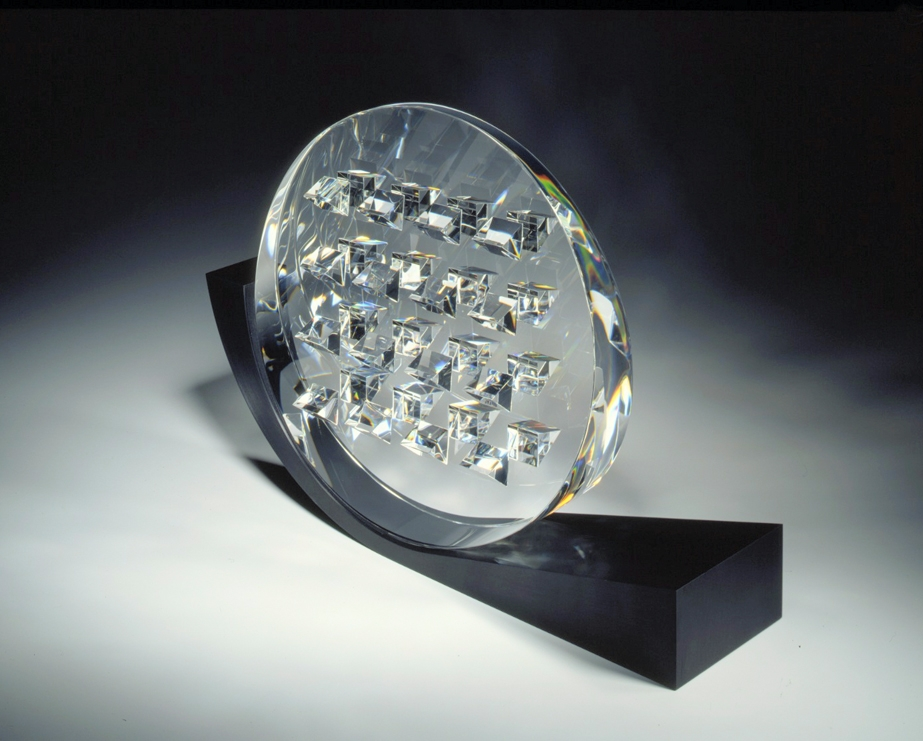 The Llura Liggett Gund Award is embodied in an original Steuben crystal sculpture, designed exclusively for the Foundation Fighting Blindness.